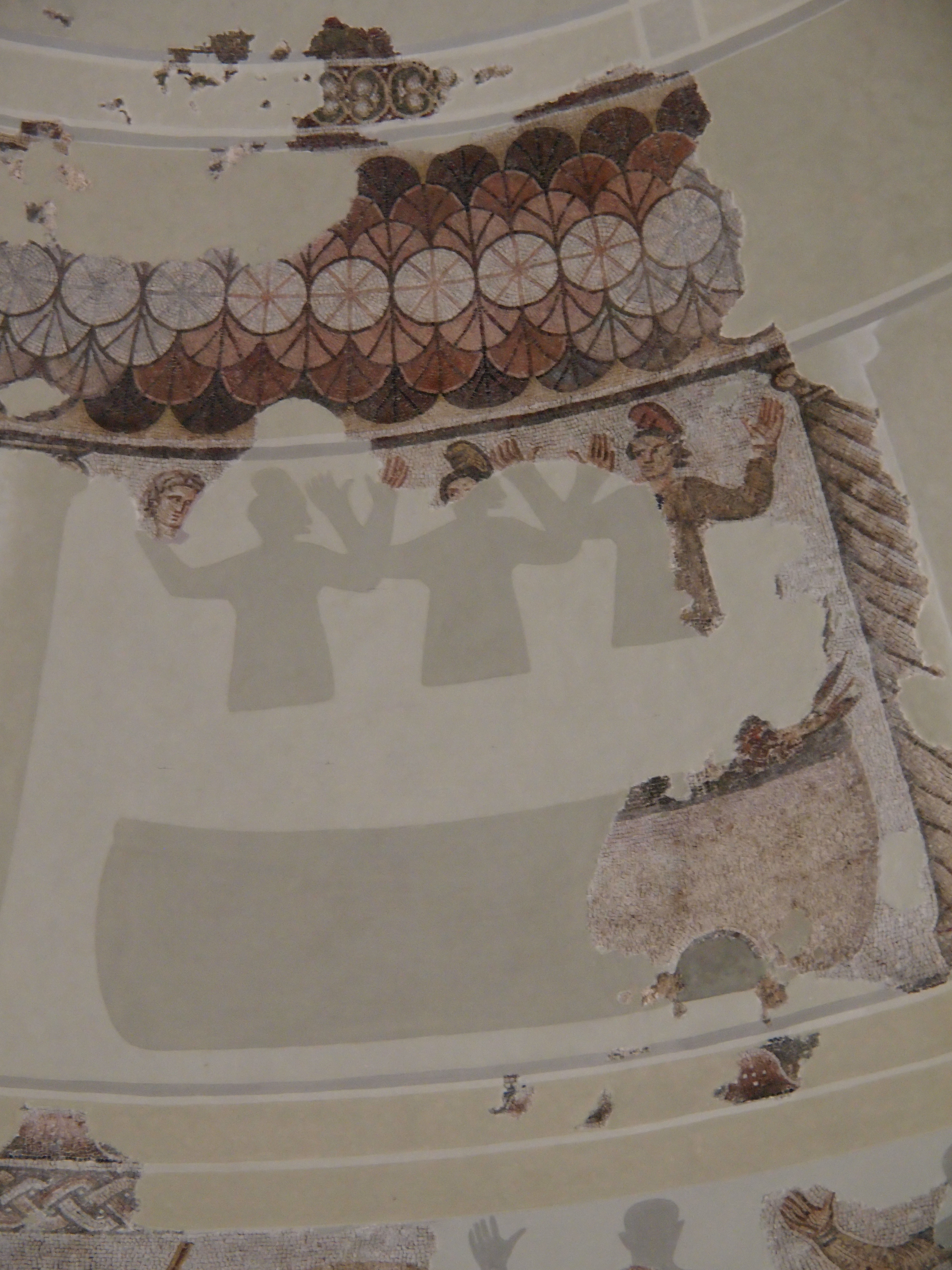 Escena de los tres jóvenes en el horno